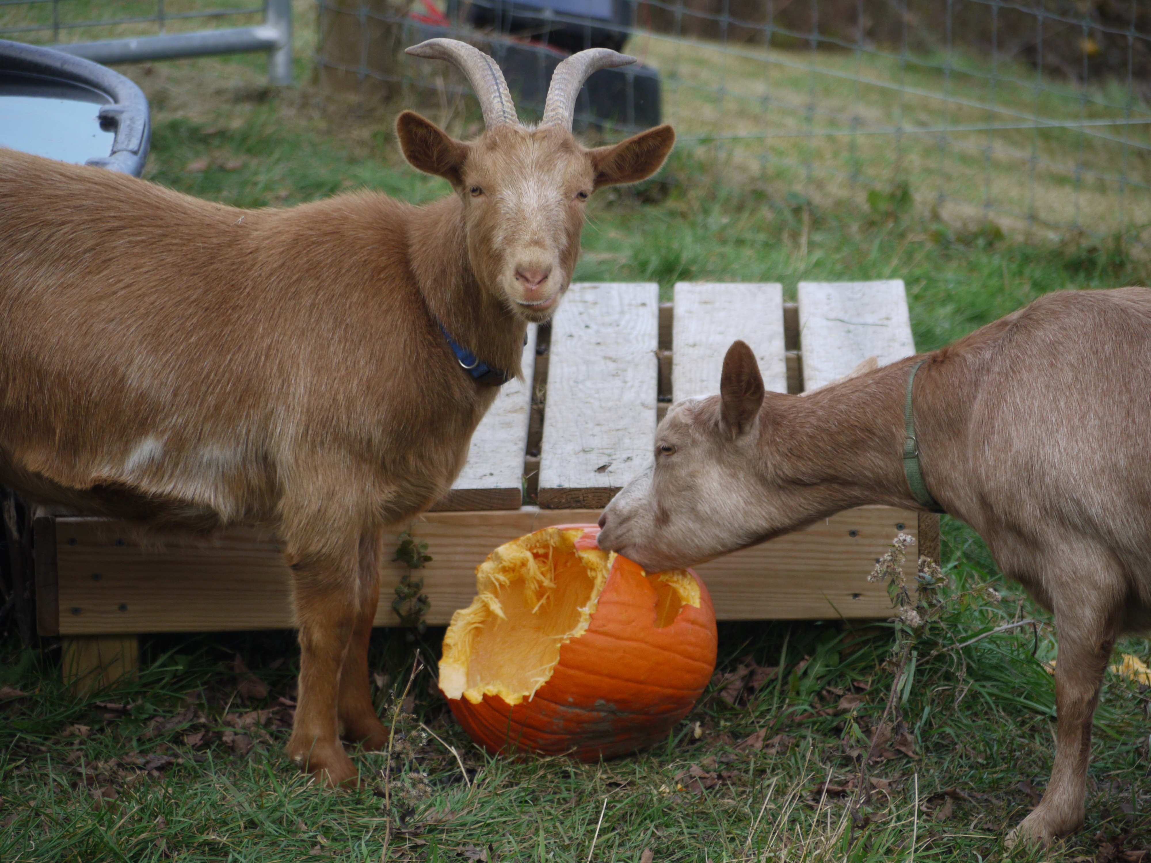 A pair of Golden Guernsey goats eat pumpkin in the fall.